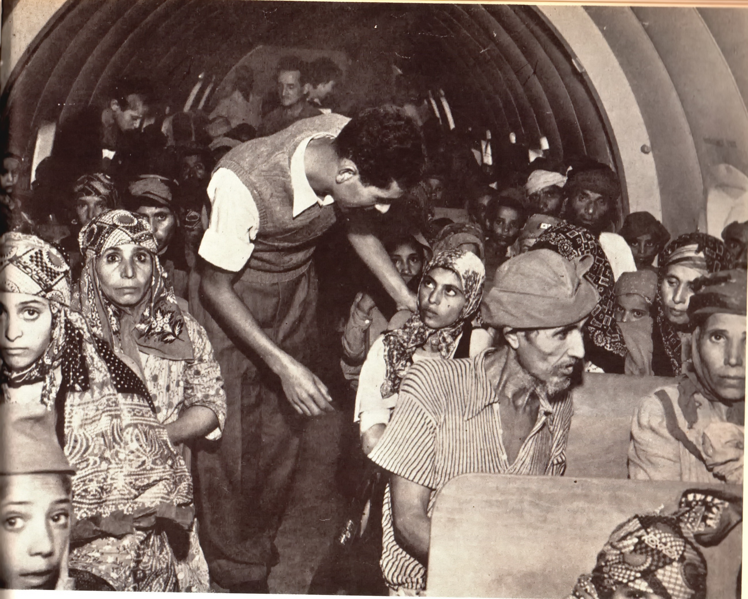 Raising the Jews of Yemen